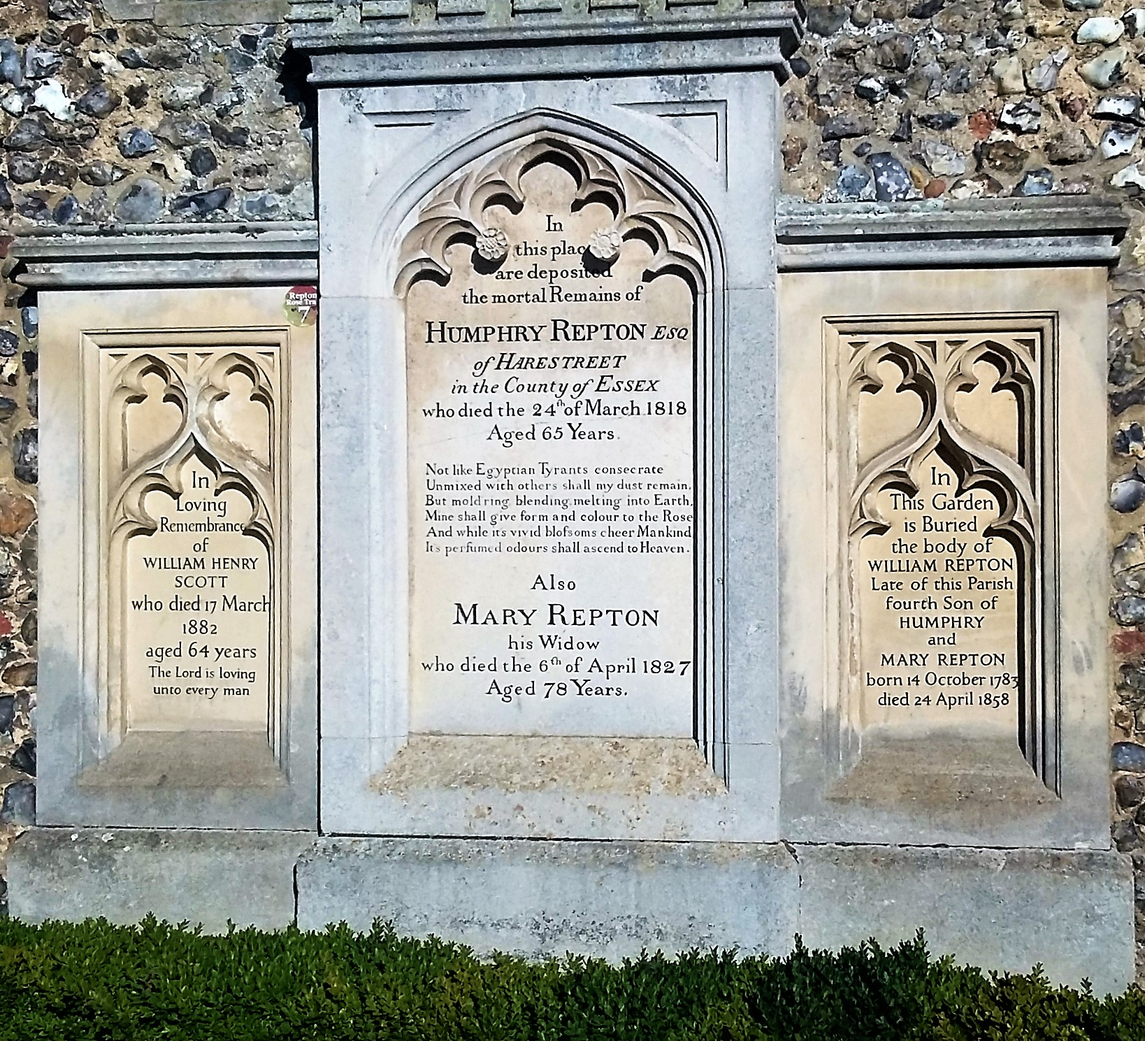 The memorial to Humphry Repton outside the parish church, Aylsham, Norfolk